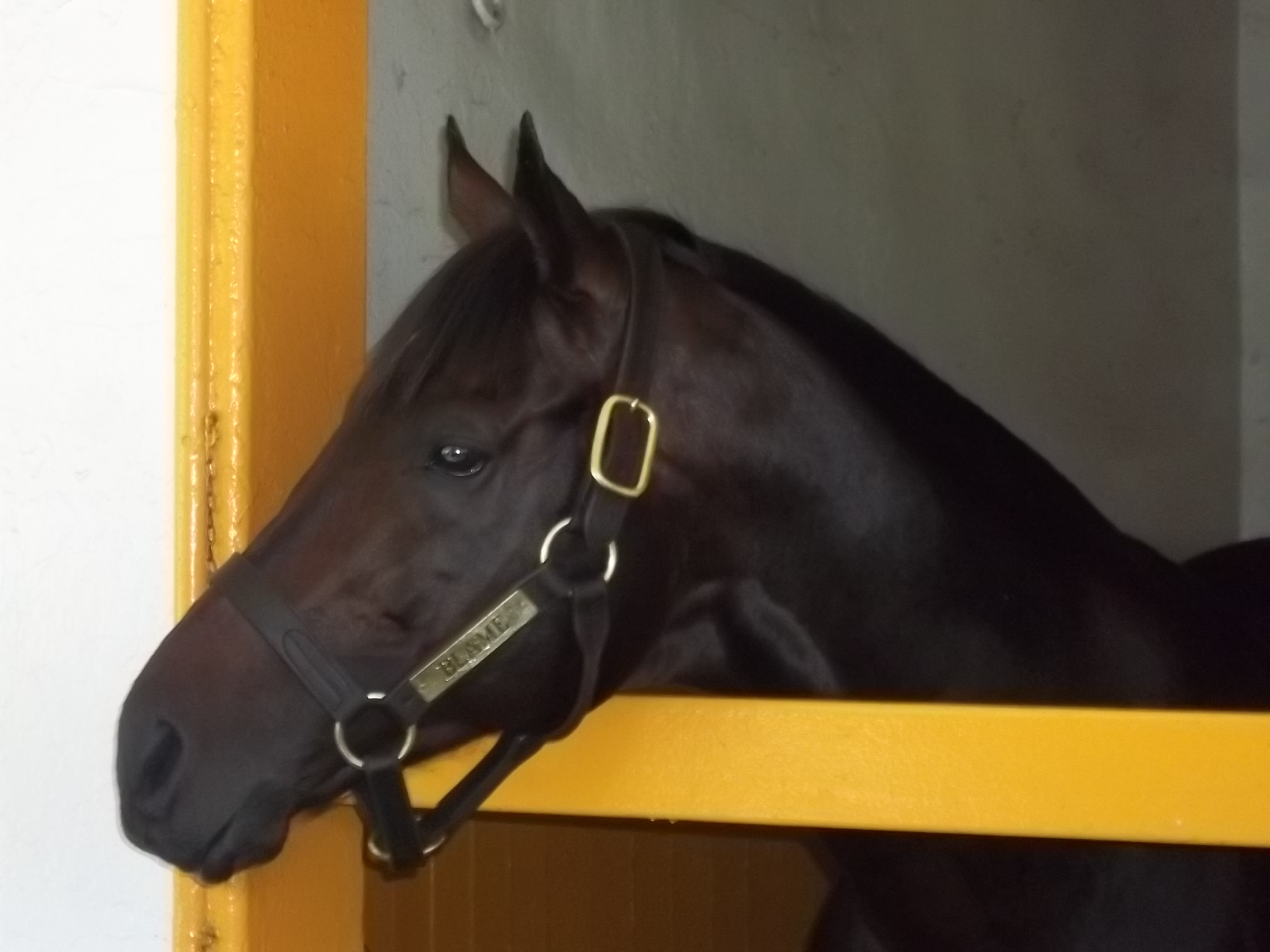 Blame at stud at Claiborne Farm in Paris, Ky. on July 5, 2014.